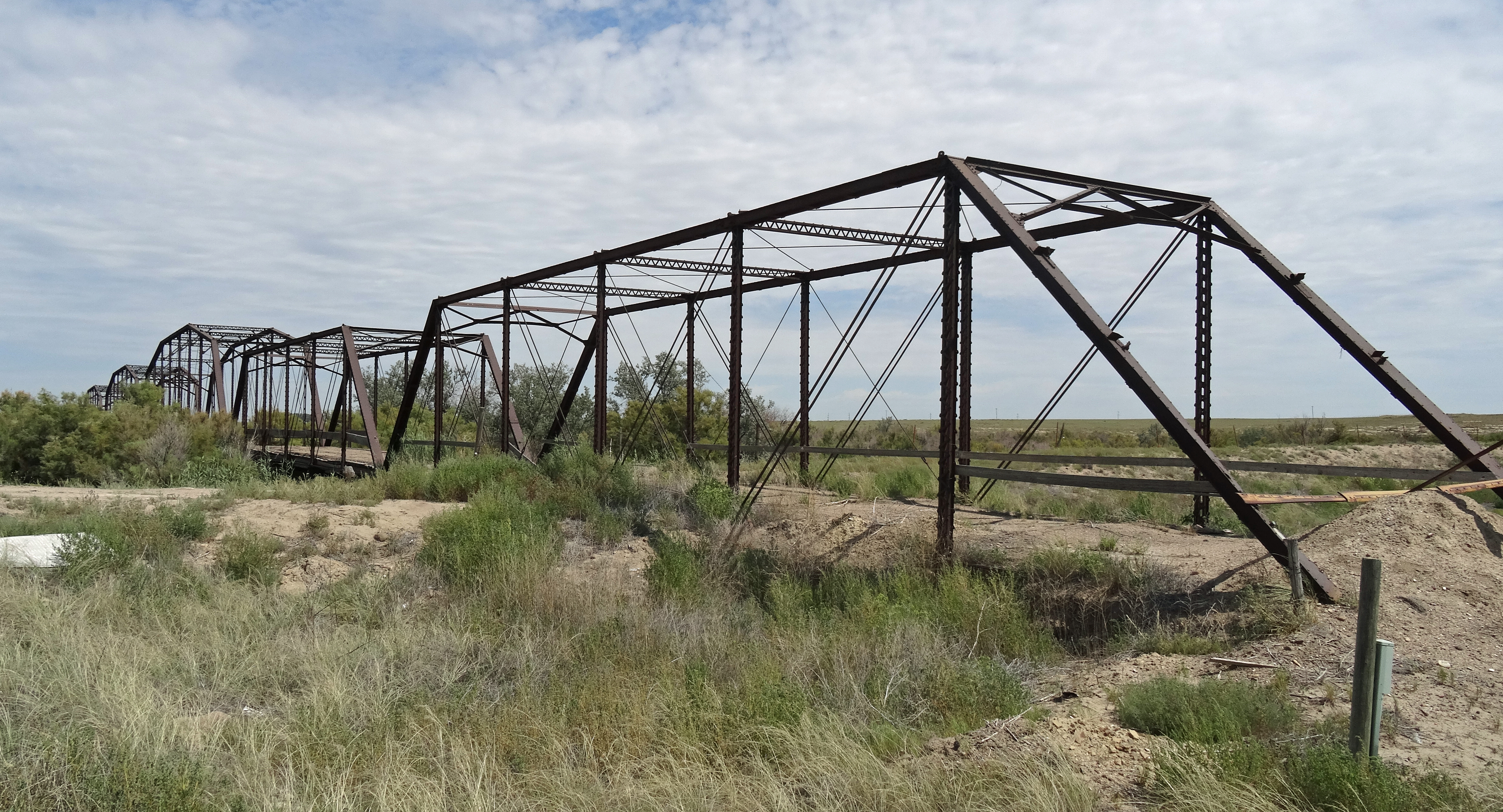 The Prowers Bridge, located on County Road 34 in Bent County, Colorado. The bridge crosses the Arkansas River.